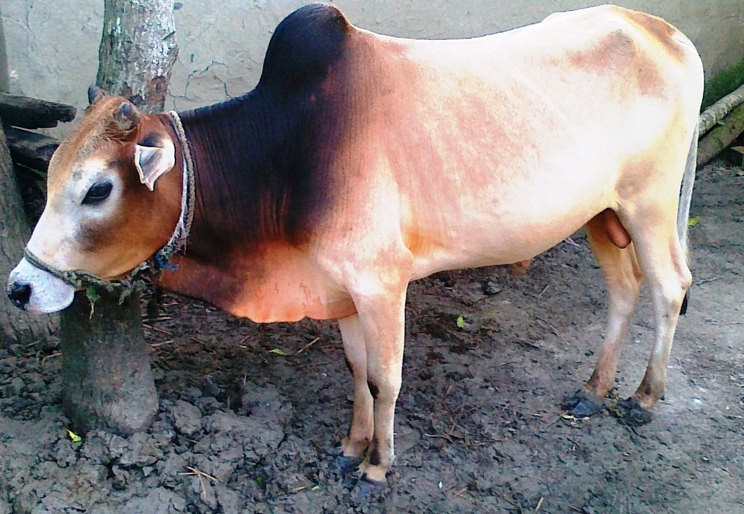 Bangladeshi cow